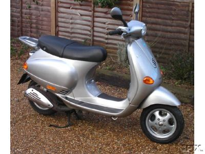 Trident13 my own 1998 Vespa ET4 125cc